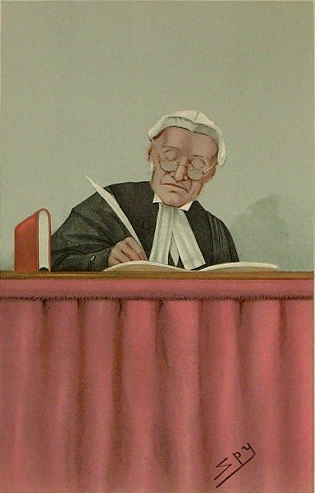 Caricature of The Hon Sir James Stirling. Caption reads: "Equity".